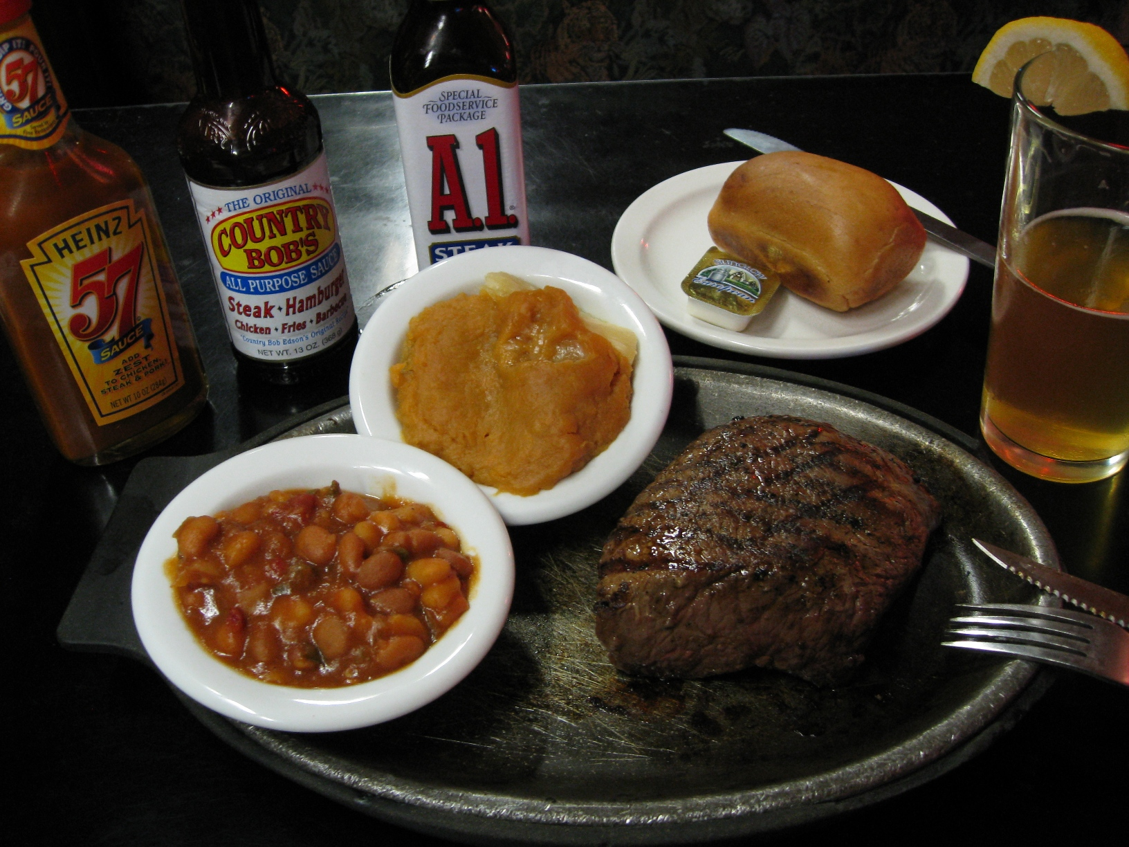 Top Sirloin (16oz, medium rare) with cowboy beans and sweet potato. The wheat beer is already half finished. I was thirsty.